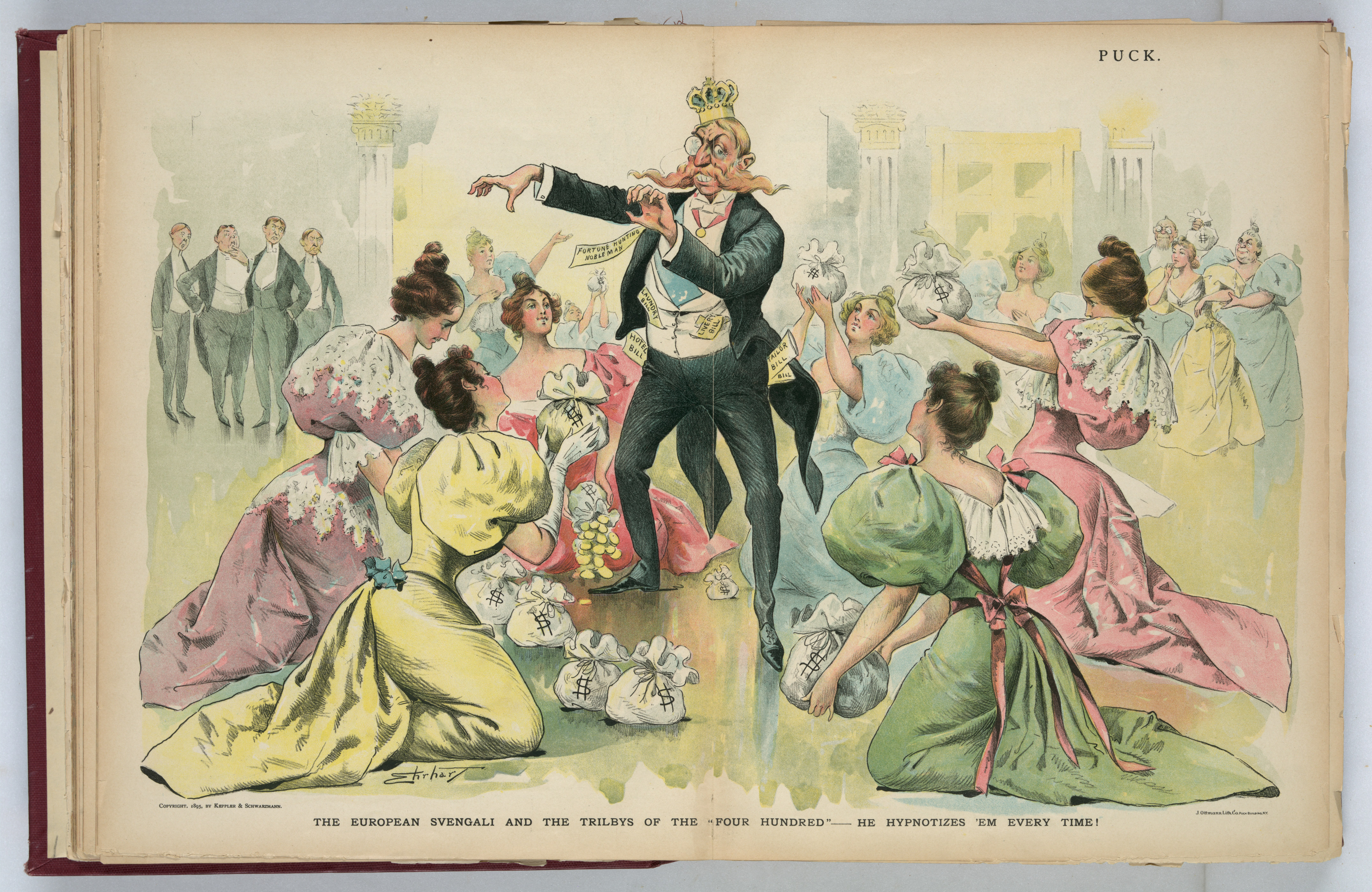 Title: The European Svengali and the trilbys of the "four hundred" - he hypnotizes 'em every time! / Ehrhart. Abstract/medium: 1 print : chromolithograph.